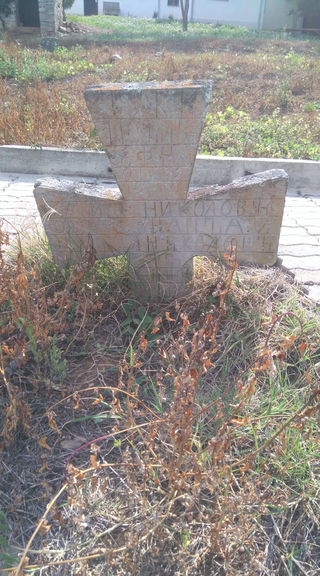 Berantsi monument2